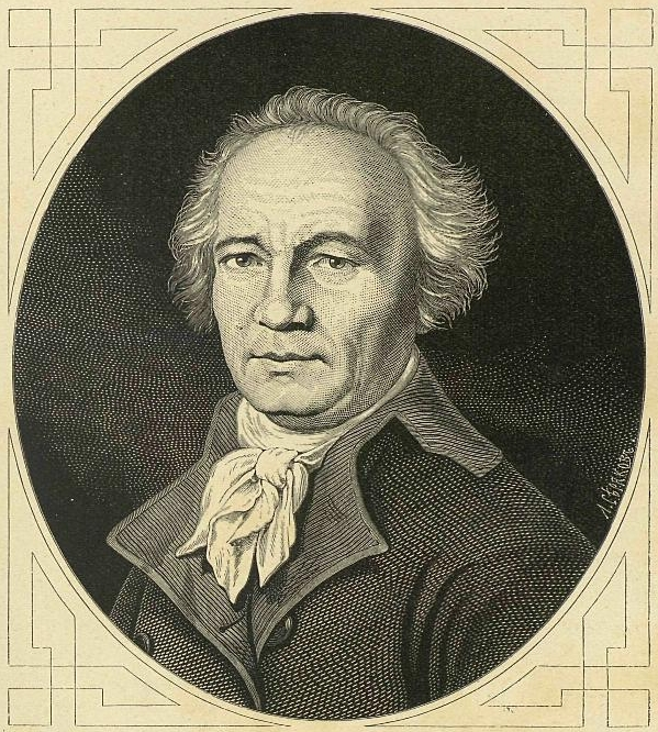 Andrey Bolotov